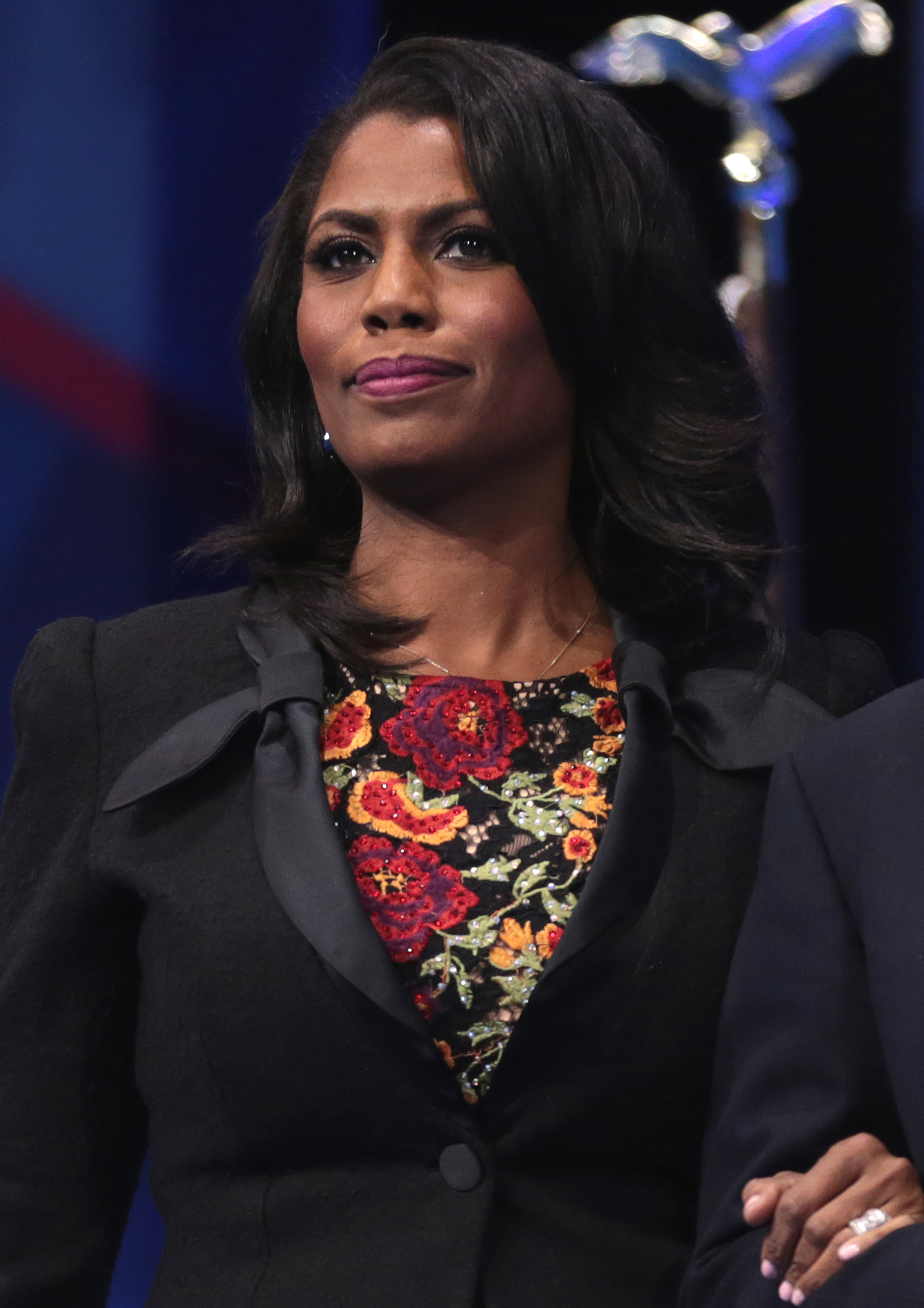 Omarosa Manigault speaking at the 2017 CPAC in National Harbor, Maryland.